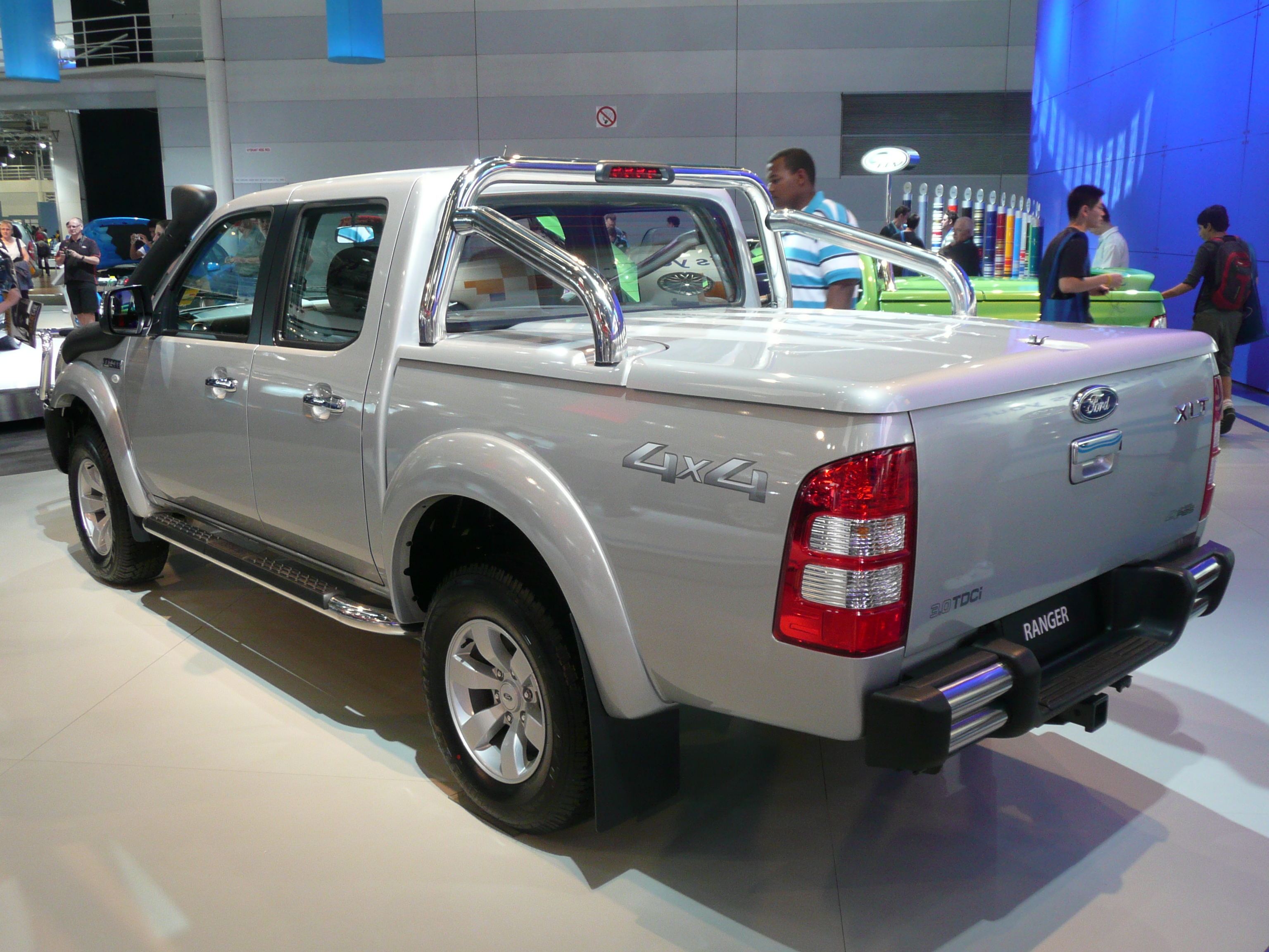 2006–2008 Ford Ranger (PJ) XLT 4-door utility. Photographed at the 2008 Australian International Motor Show, Sydney, New South Wales, Australia.